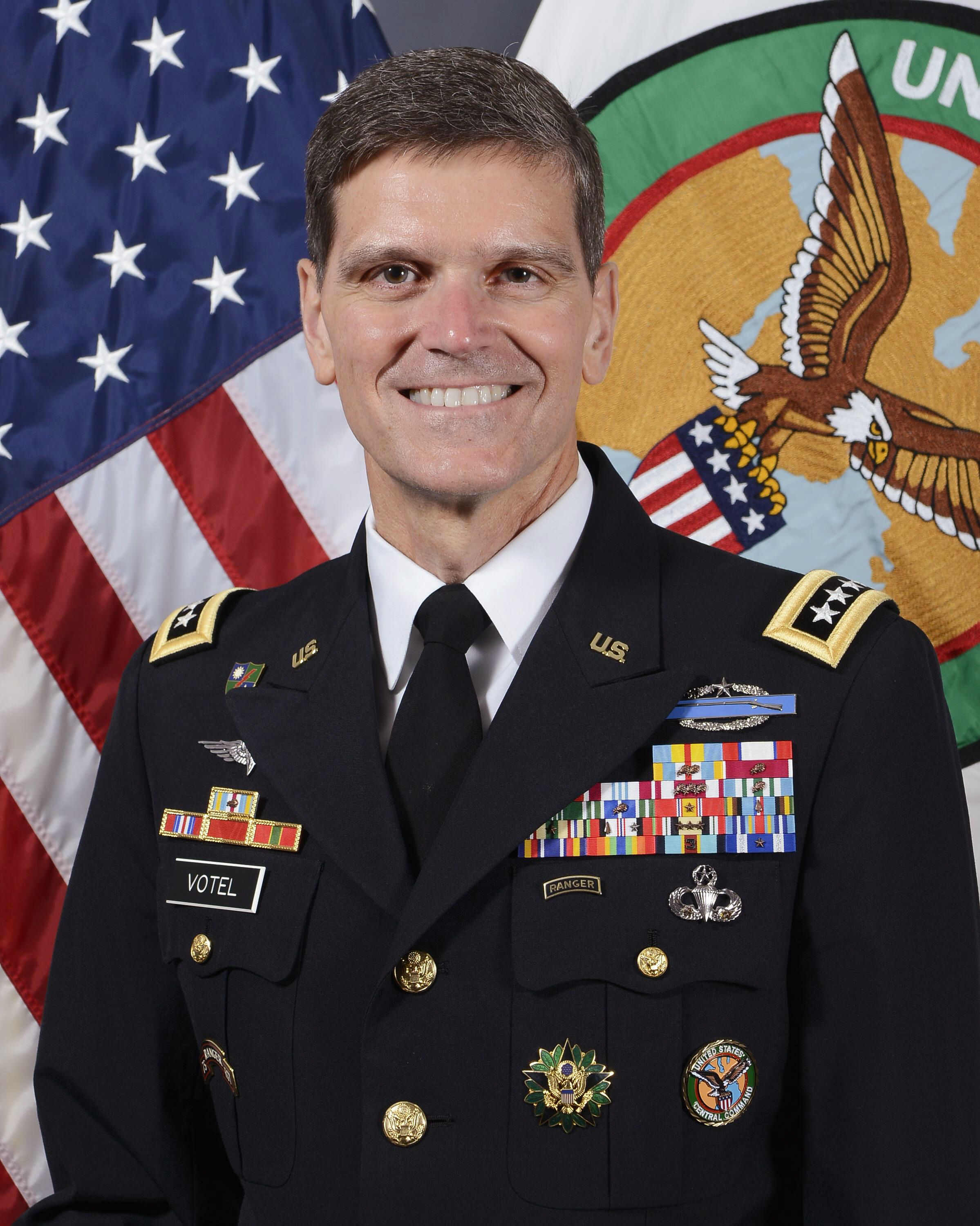 General Joseph L. Votel, USA13th Commander of U.S. Central Command